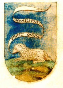 Fontana, Giacomo Emblem of Humiliati order, from Insegne di varii prencipi et case illustri d'Italia e altre provincie, by Giacomo Fontana, 1605. Ms. in Biblioteca estense at Modena.